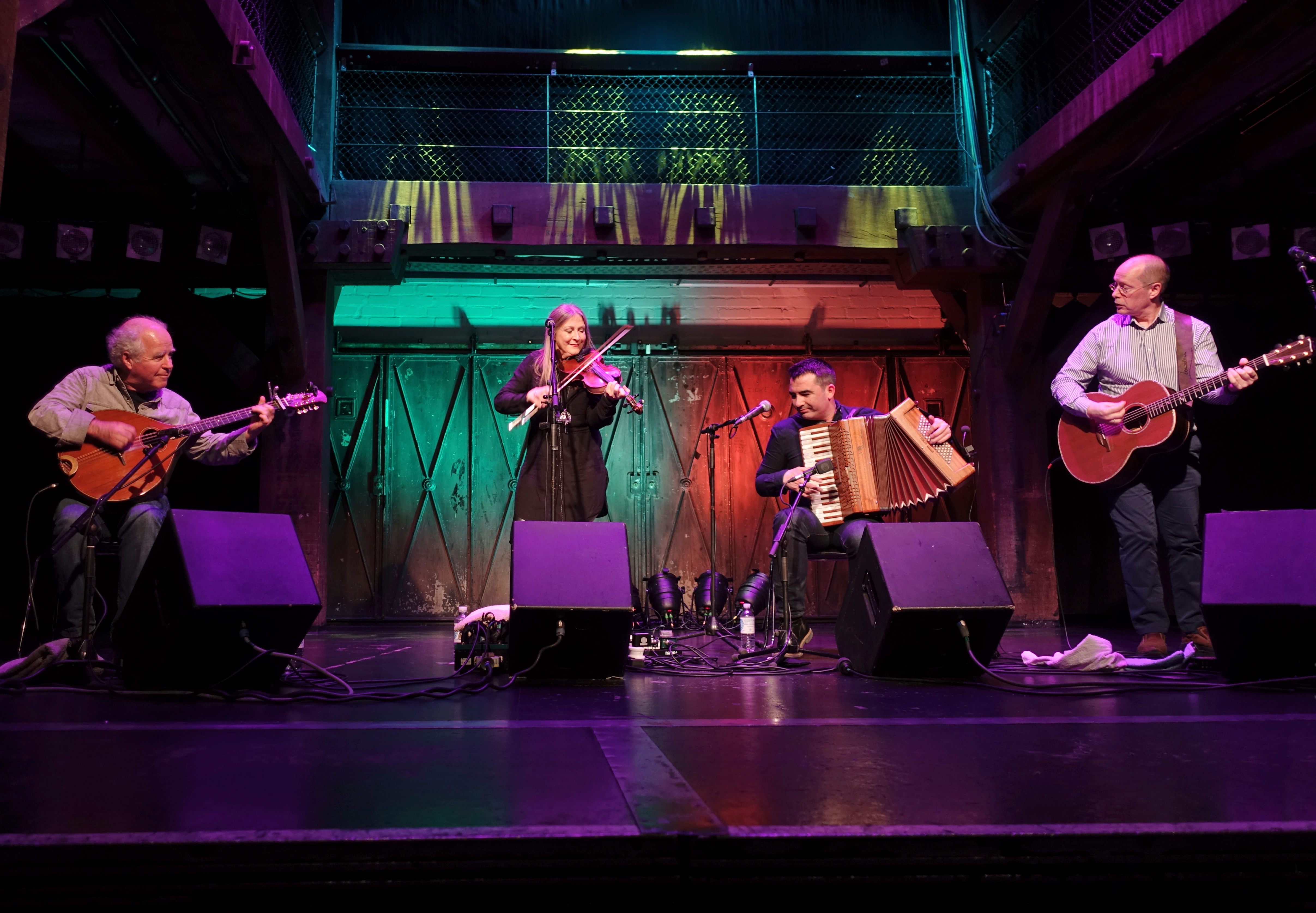 Concert of the Irish band Altan in the Fabrik Hamburg, 1. Apr. 2019